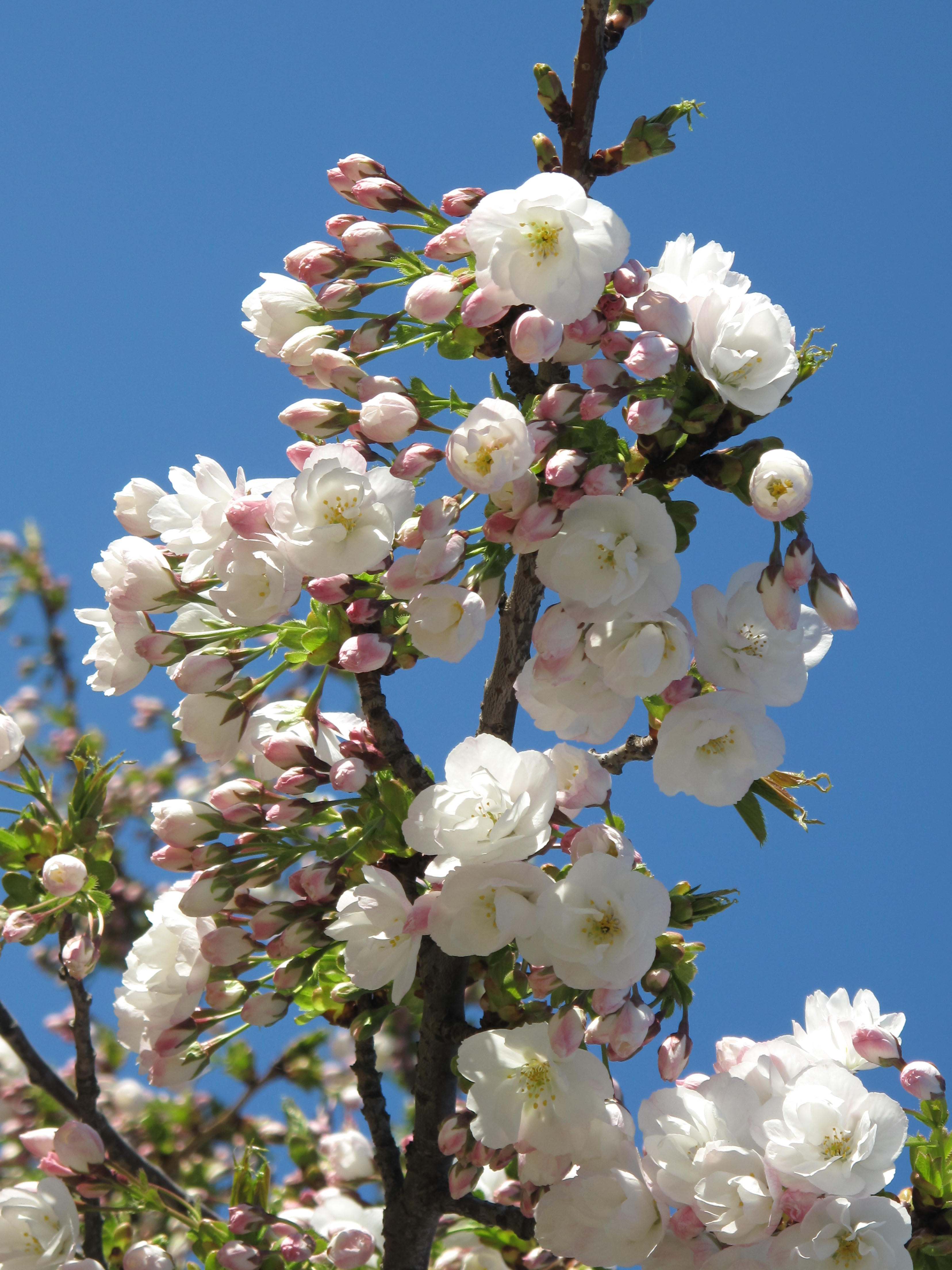 Prunus groupe Sato Zakura 'Shirotae' in the Jardin des Plantes in Paris. Identified by its botanic label.